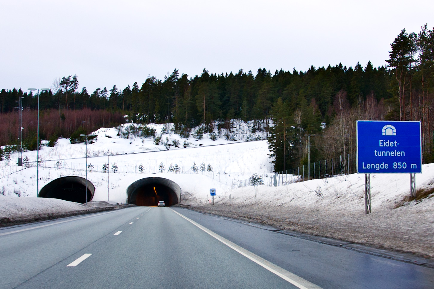 The Eidet tunnel on E6 in Østfold, Norway.